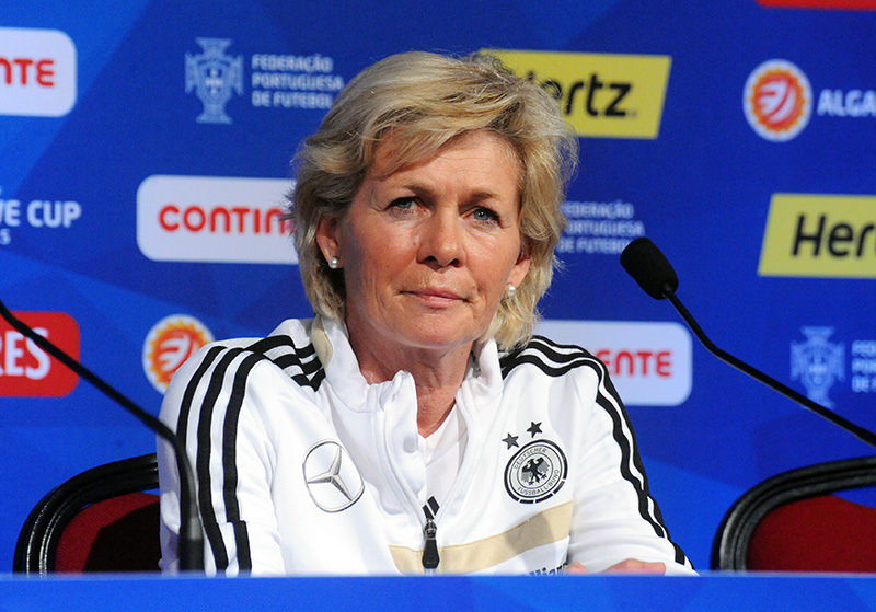 Silvia Neid at the Algarve Cup in 2015